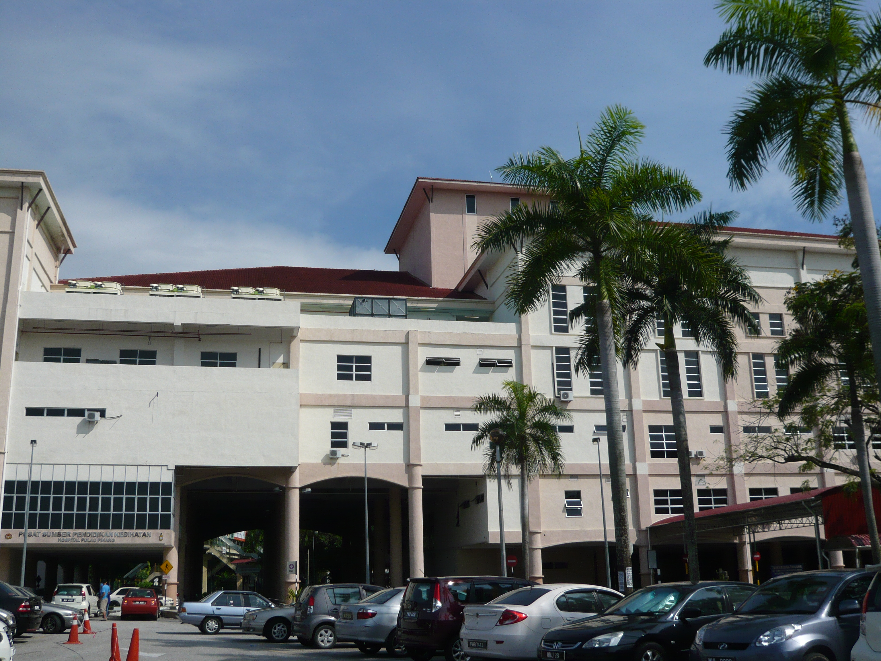 pg hospital